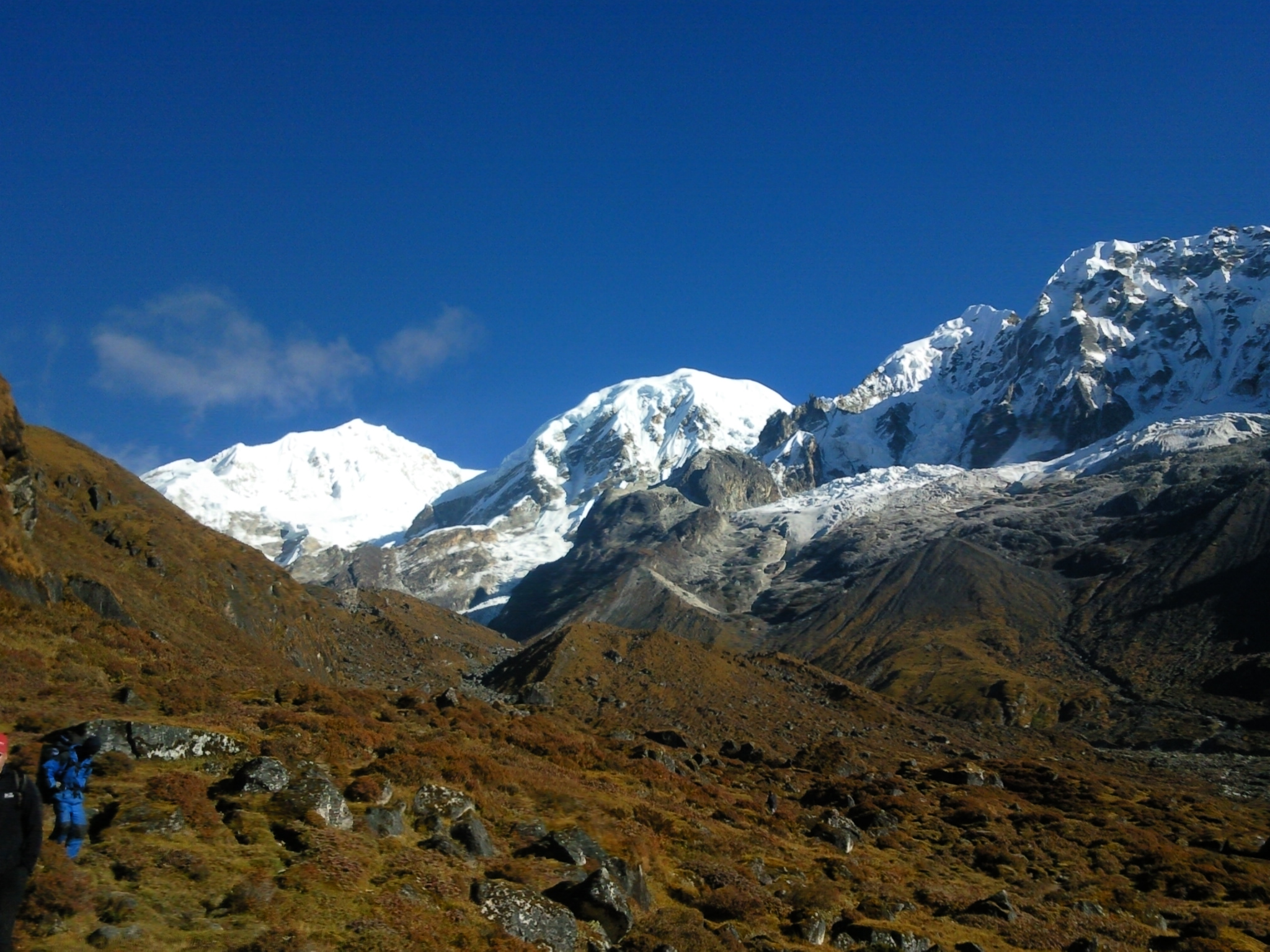 Dzongri La up close, ~hour trek to HMI base camp.